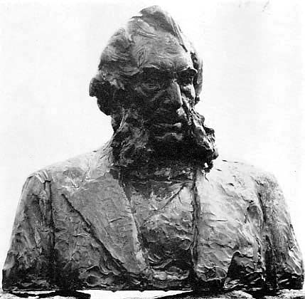 Black and white photograph of a bronze statue of John Bigelow